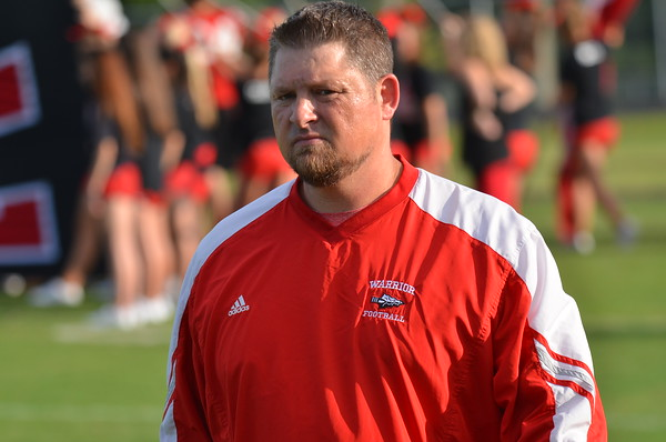 Bo Campbell & his staff are new to the LFO football program since 2009.